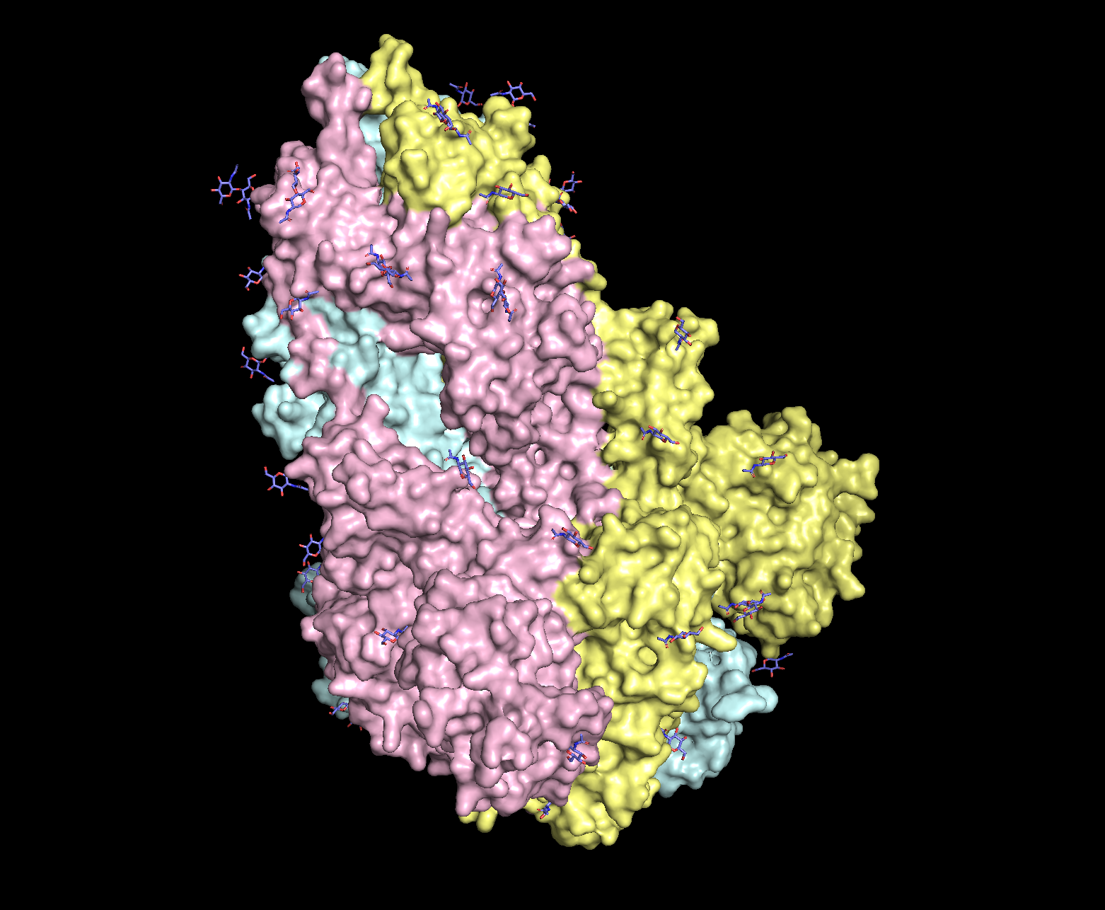 A trimeric extensively glycosylated protein responsible for the binding to ACE2 receptors in COVID-19. Visualized from PDB Entry 6VXX[1]. Glycans highlighted in blue.